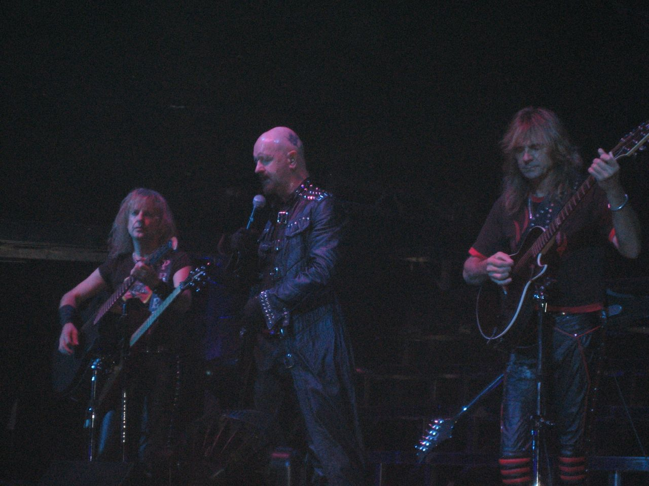 K. K. Downing, Rob Halford and Glenn Tipton on the Judas Priest's concert